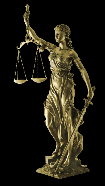 Lady JusticeLatina: Statua Iustitiae